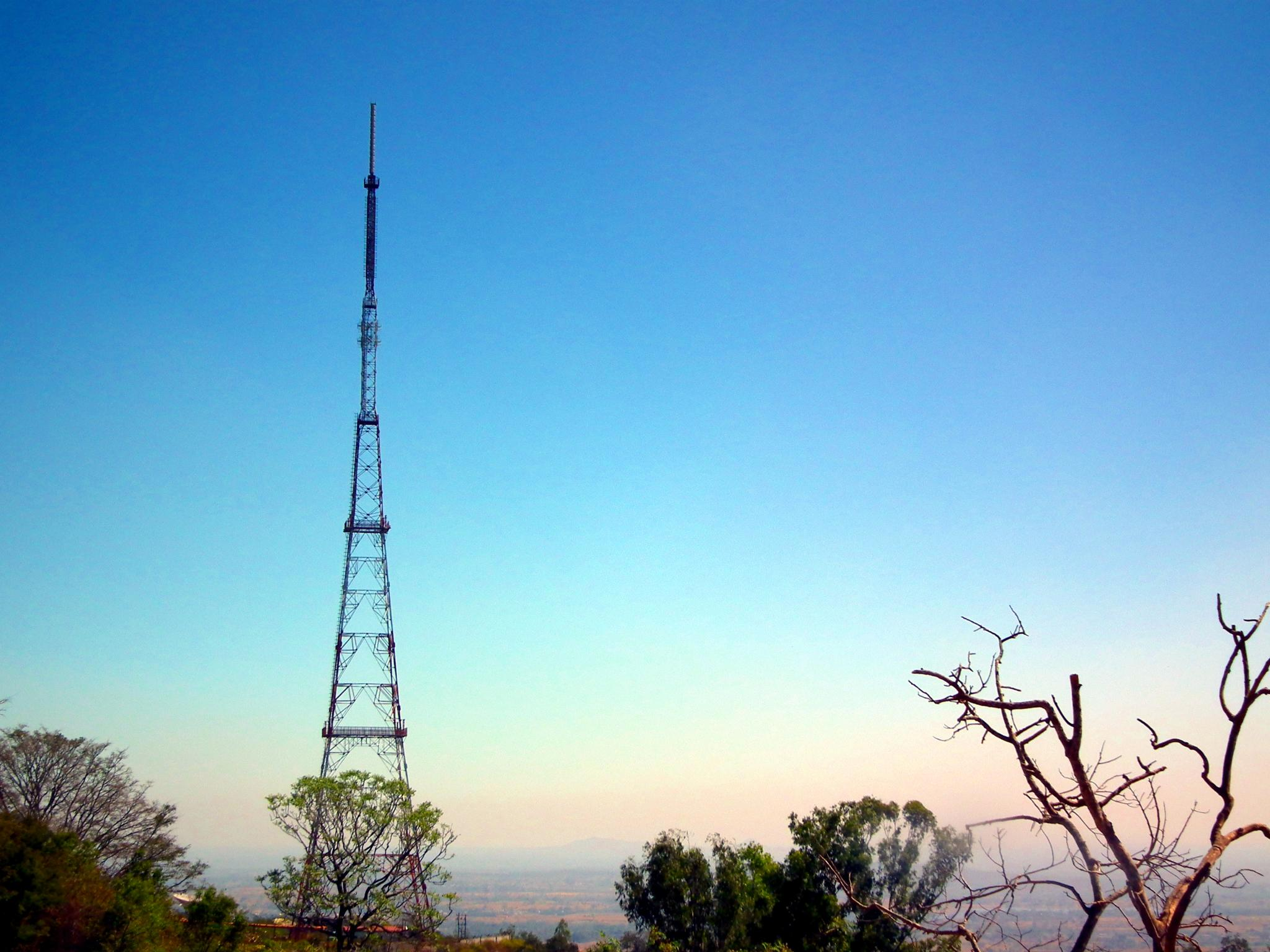 Mysore city started receiving television broadcasts in the early 1980s when Doordarshan started beaming its national channel all over India. This was the only channel available for Mysoreans till Star TV started beaming satellite channels in 1991. Direct to home channels are now available in Mysore.